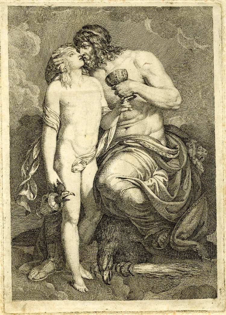 Engraving of the painting Zeus küsst Ganymed by Wilhelm Böttner